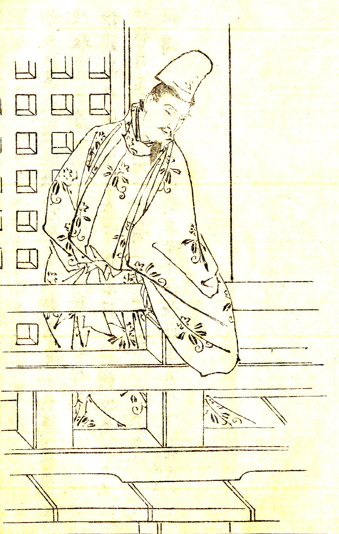 Prince Kazurawara(葛原親王) was a Japanese prince in Heian Period.He was an ancestor of Taira clan.